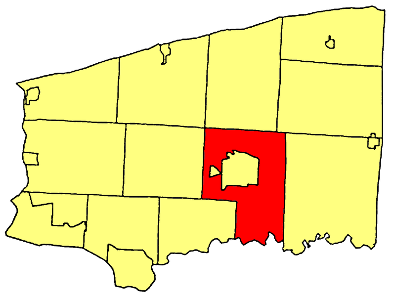 Location of the municipality in Niagara County, New York.